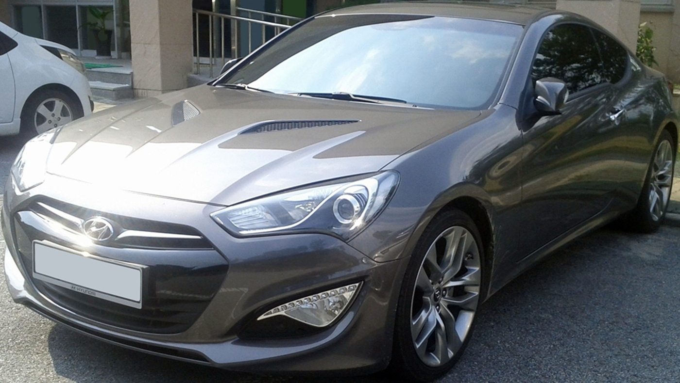 Hyundai Genesis Coupe